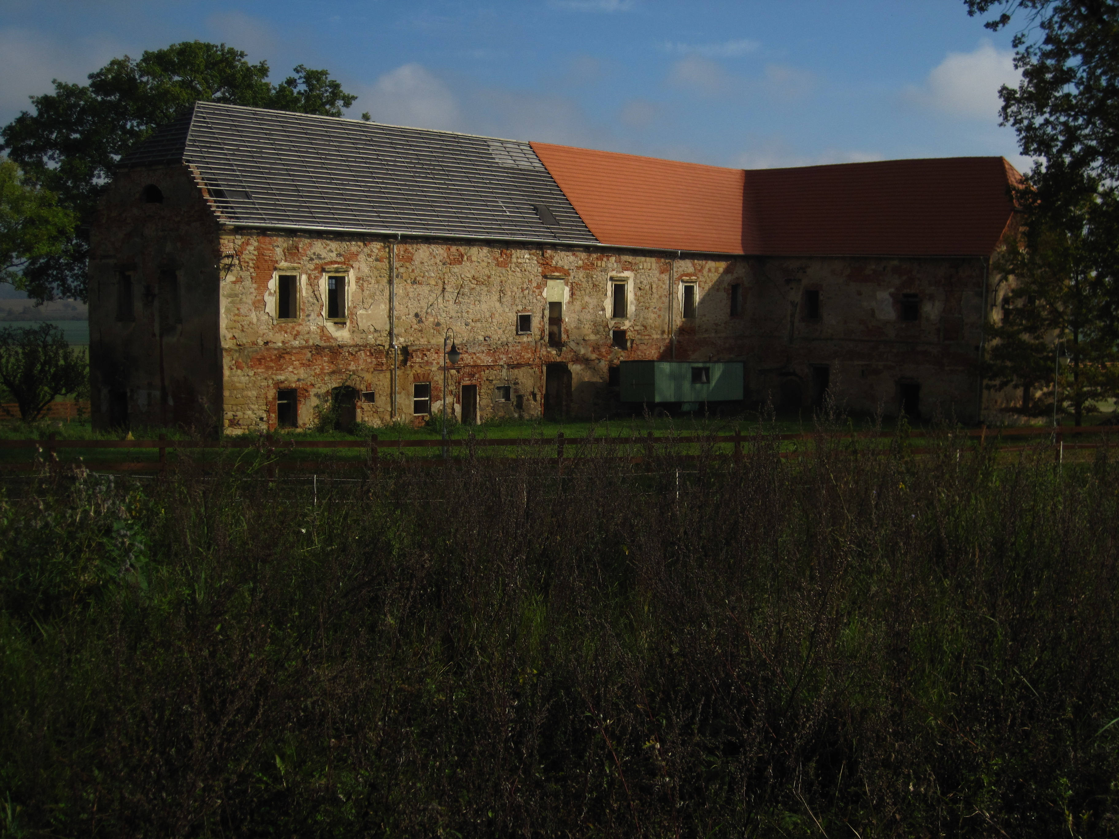 Studénka (Bakov nad Jizerou)